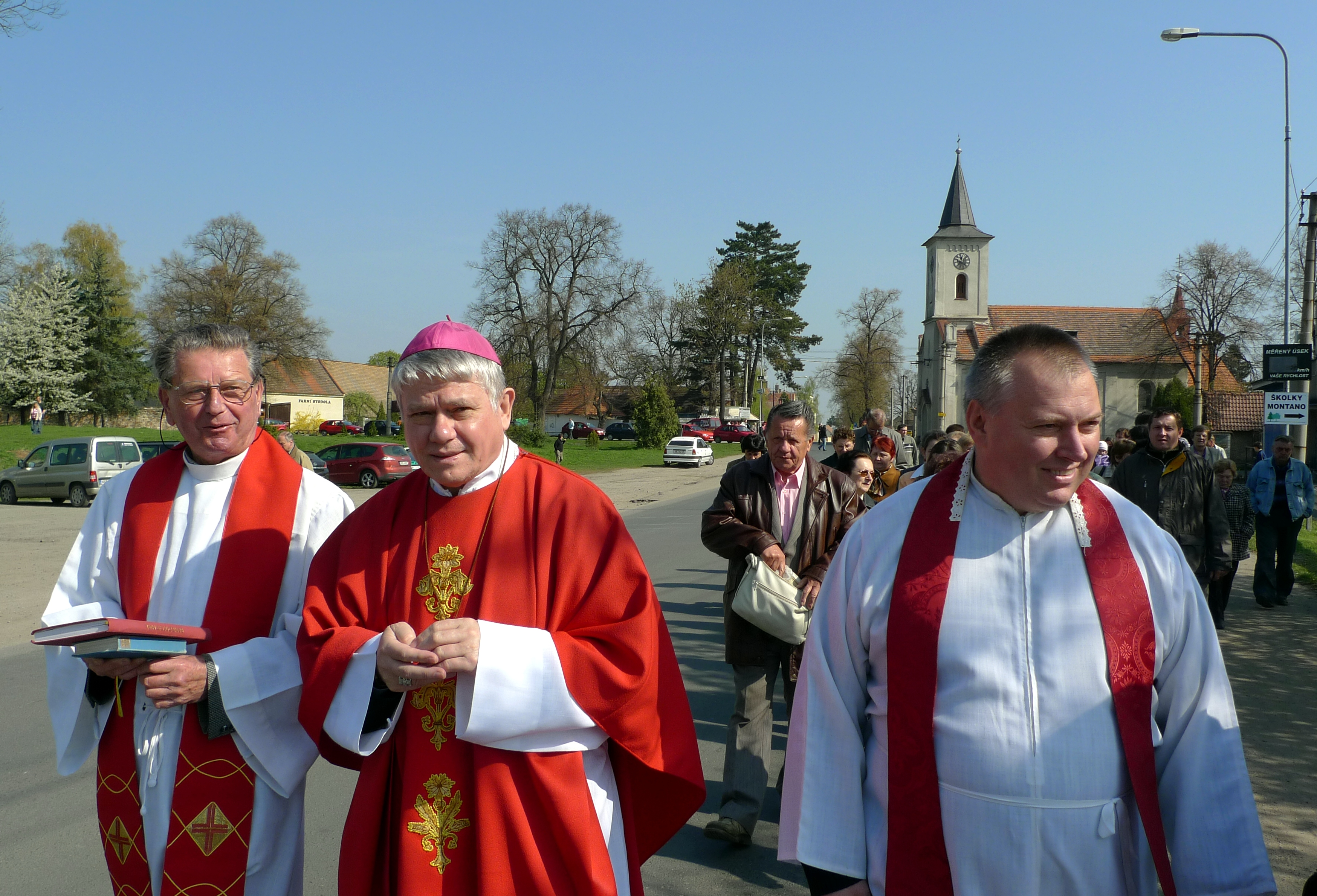 Priest of Čelákovice Richard Scheuch, Czech catholic theologian and auxiliary bishop of Prague Václav Malý and vicar general Michael Slavík in Přerov nad Labem Česky: Čelákovický farář Richard Scheuch, římskokatolický teolog a pomocný biskup pražský Václav Malý a generální vikář Michael Slavík při svěcení kapličky sv. Vojtěcha v Přerově nad Labem (zde před kostelem sv. Vojtěcha)